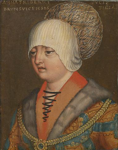 Anna of Brunswick-Luneburg, 2nd wife of Frederick IV of Austria